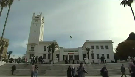 City Hall Mostaganem-Algeria